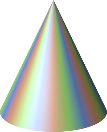 A simple illustration of a cone shape quickly produced by me using POV-Ray